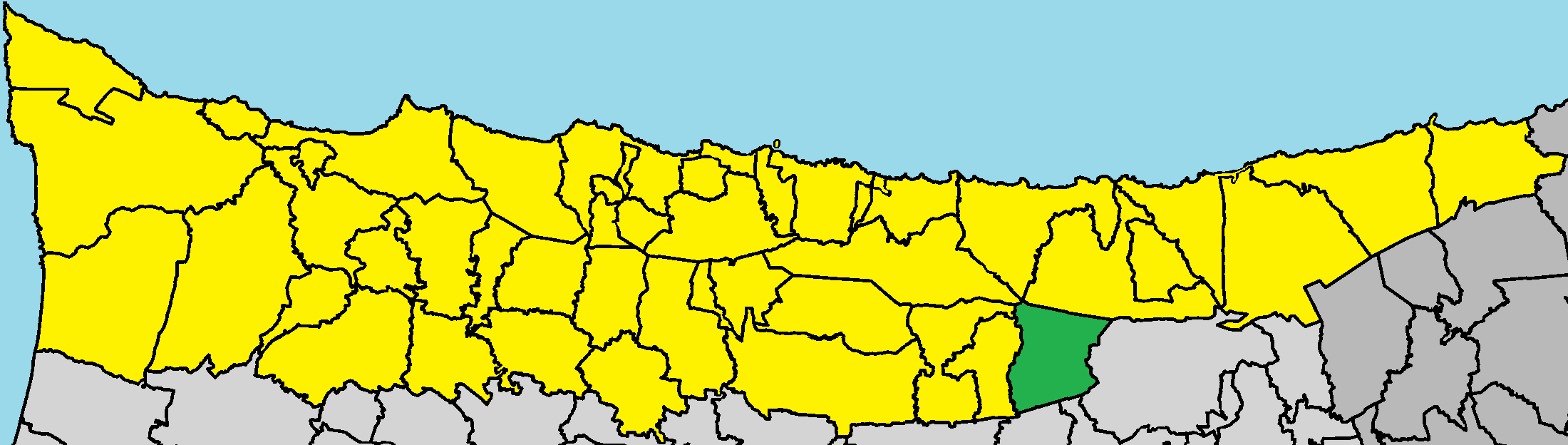 Koutsoventis in Kyrenia District (de jure).